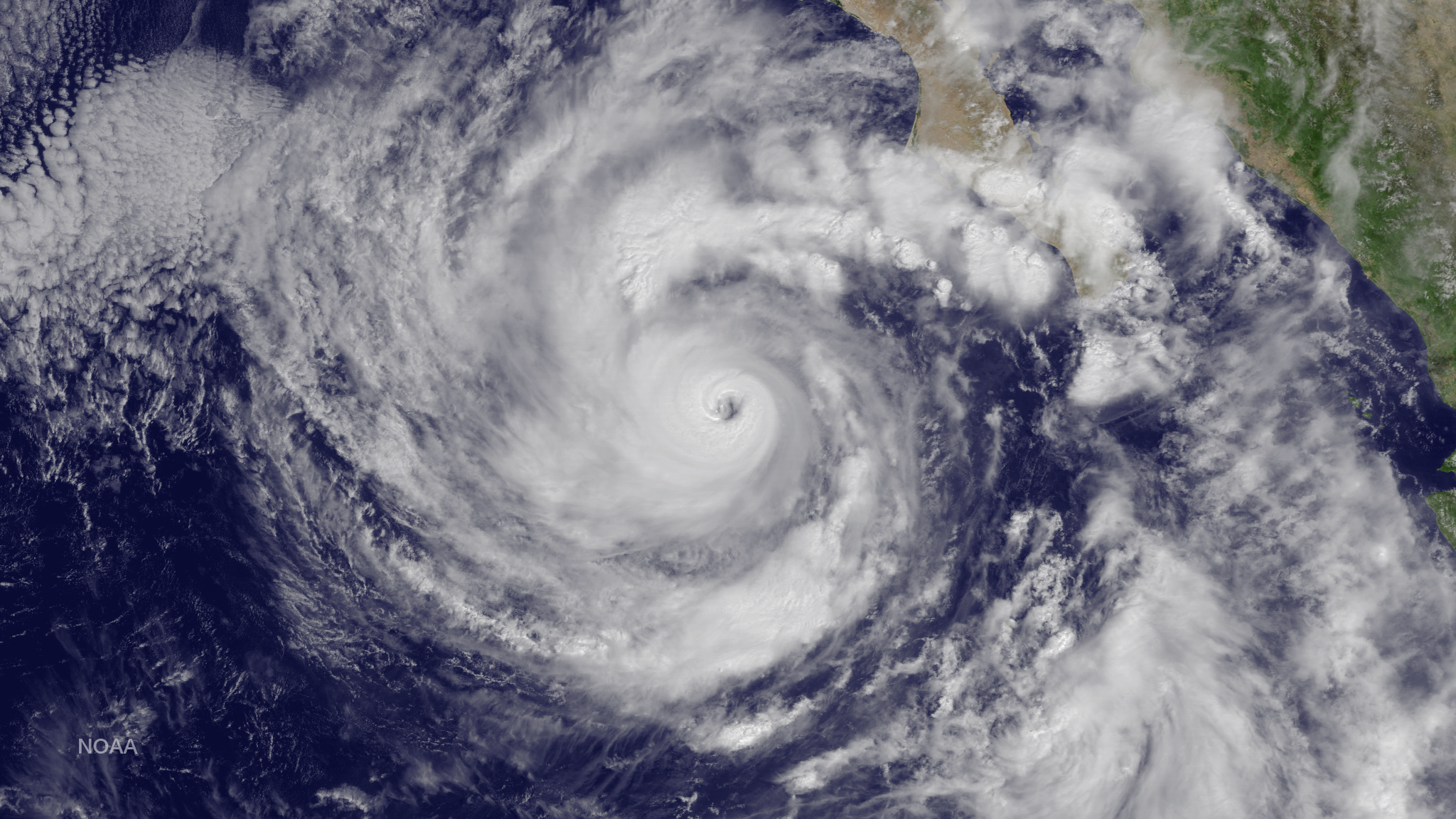 Hurricane Linda in the Pacific Ocean west of Mexico's Baja Peninsula has strengthened into the fifth major hurricane in the eastern North Pacific Basin this year. This image was taken by GOES West at 1800Z on September 8, 2015.